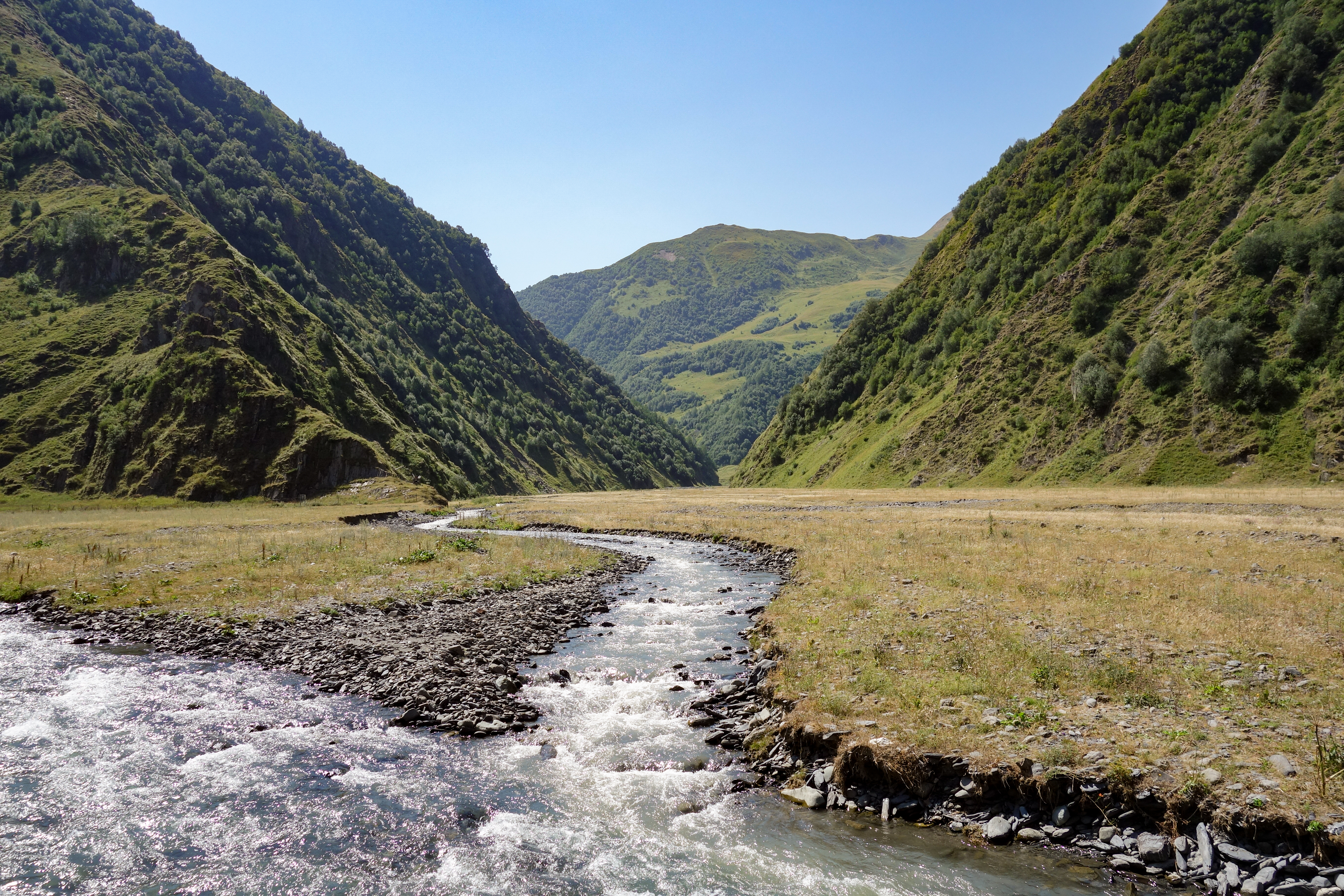 Confluence of Jutistskali (flowing from the left side) and Kvenamtistskali, Mtskheta-Mtianeti, Georgia